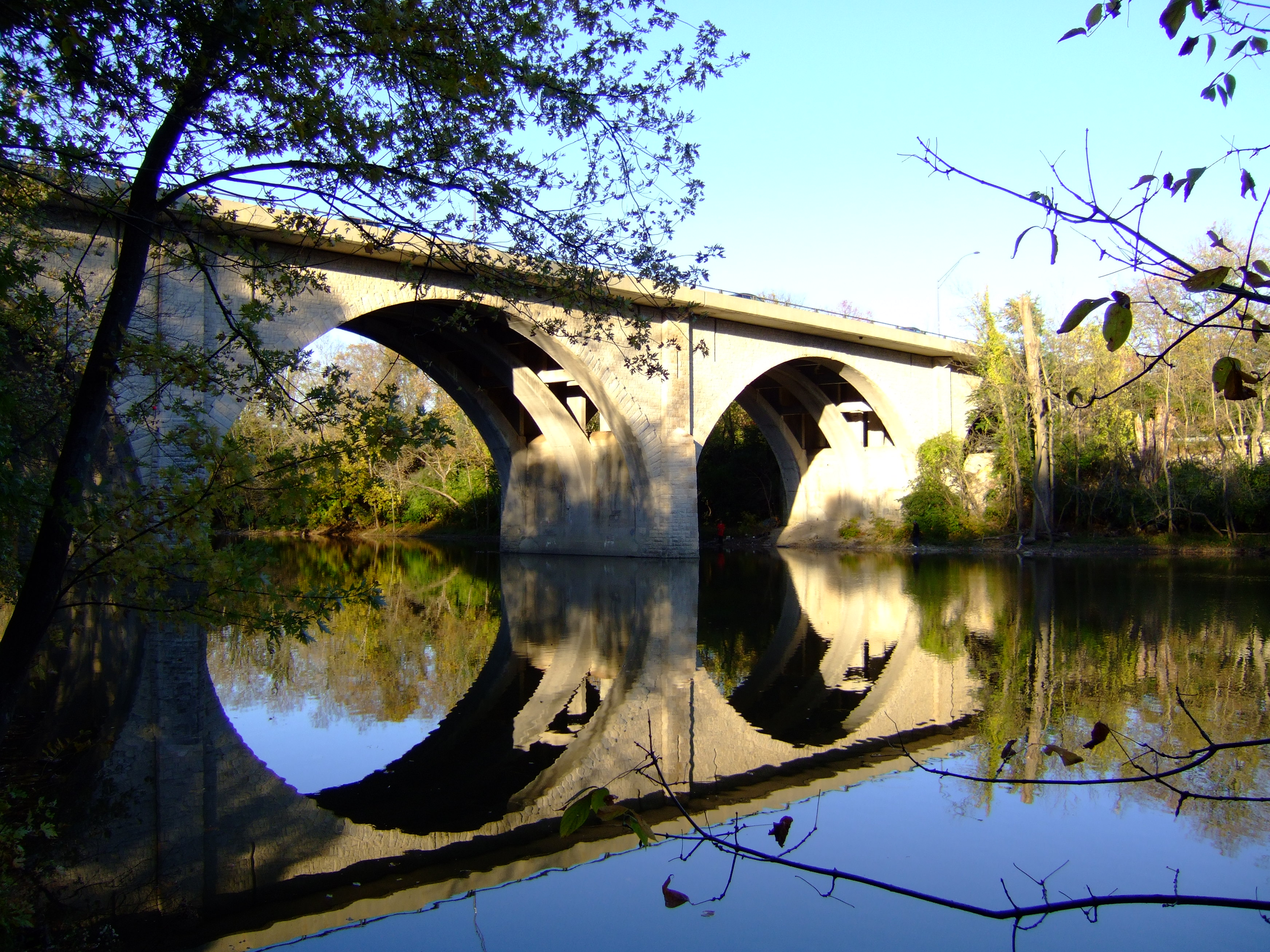 Dublin, Ohio, USA. State Route 161 over the Scioto River in Dublin.